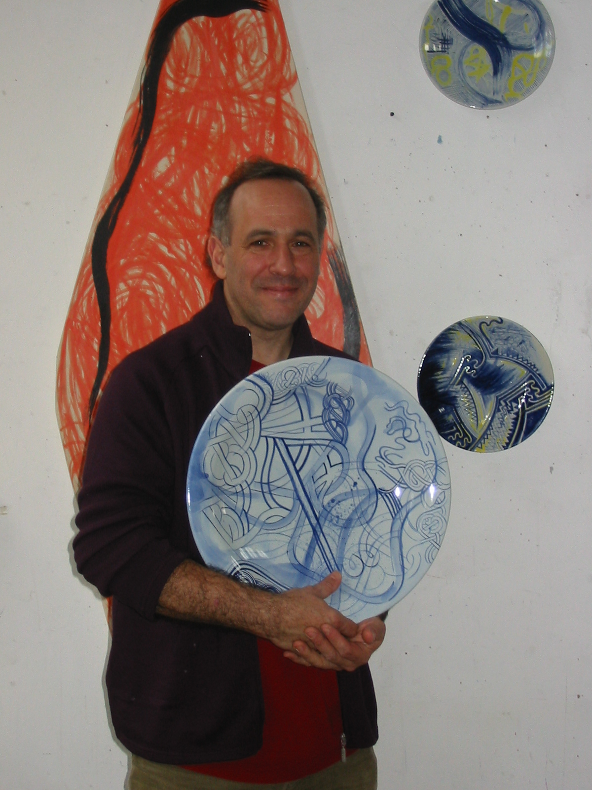 Dutch artist in ceramics Chris Dagradi, picture taken with permission, october 2006.